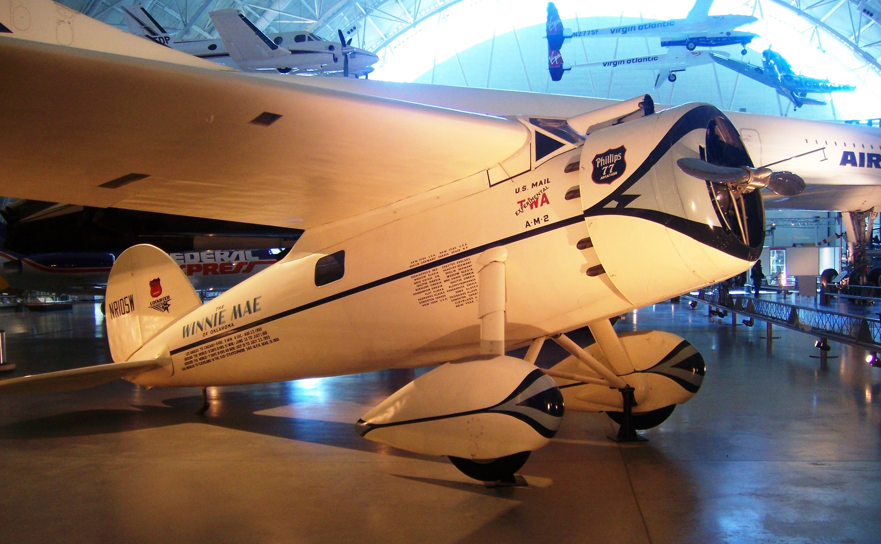 "Winnie Mae" a Lockheed Vega aircraft of Wiley Post, in Steven F. Udvar-Hazy Center